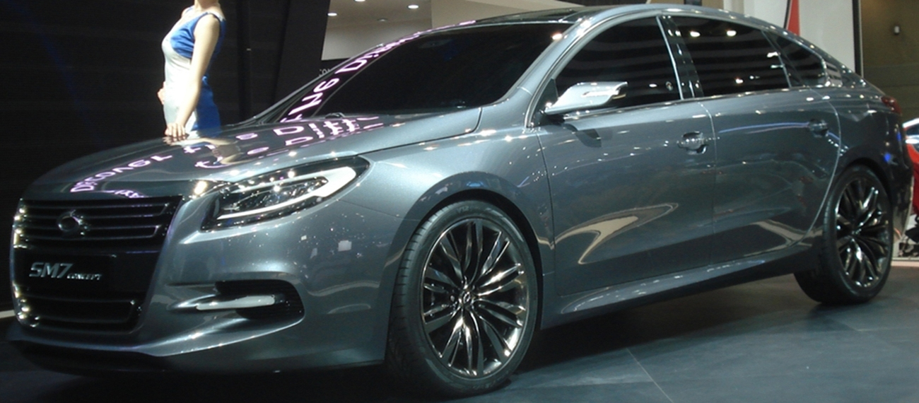 Renault Samsung SM7 Concept